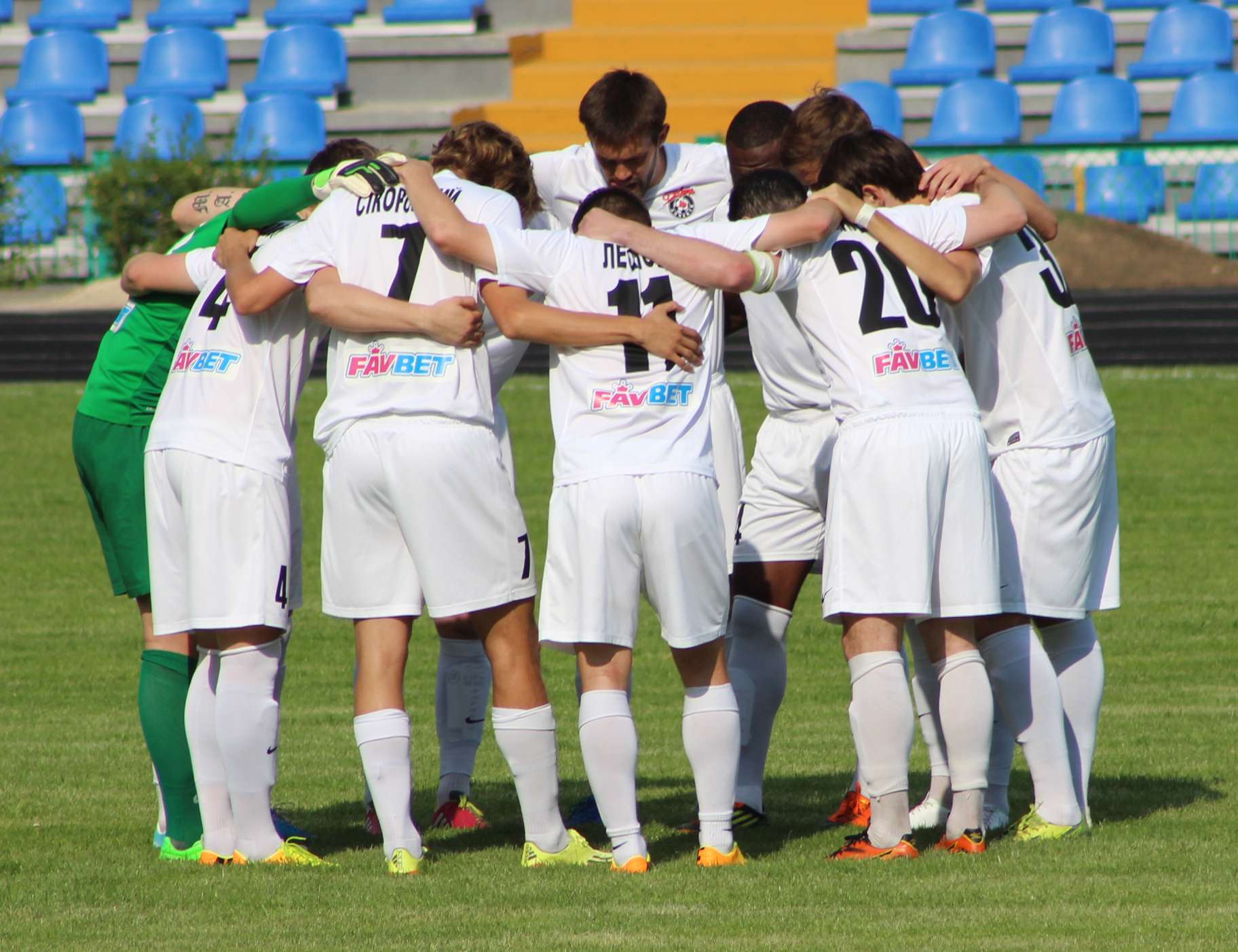 Players of FC Stal Alchevsk